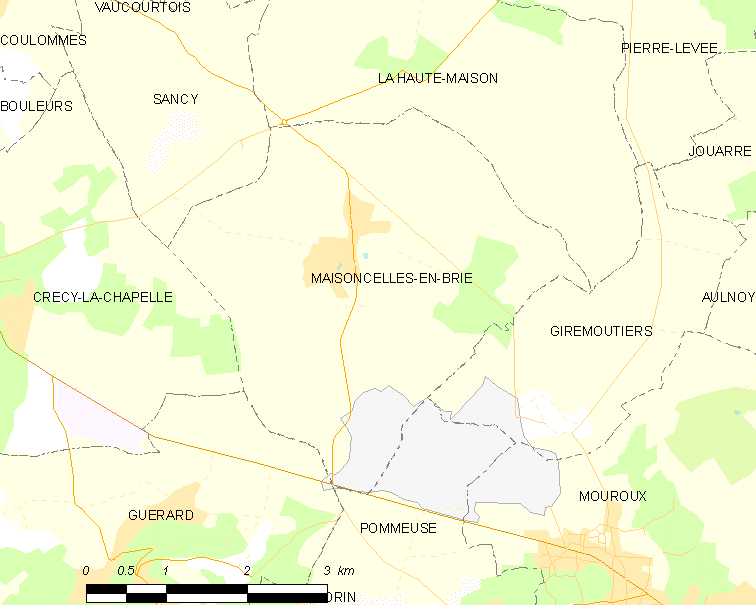 Map of French municipality Maisoncelles-en-Brie